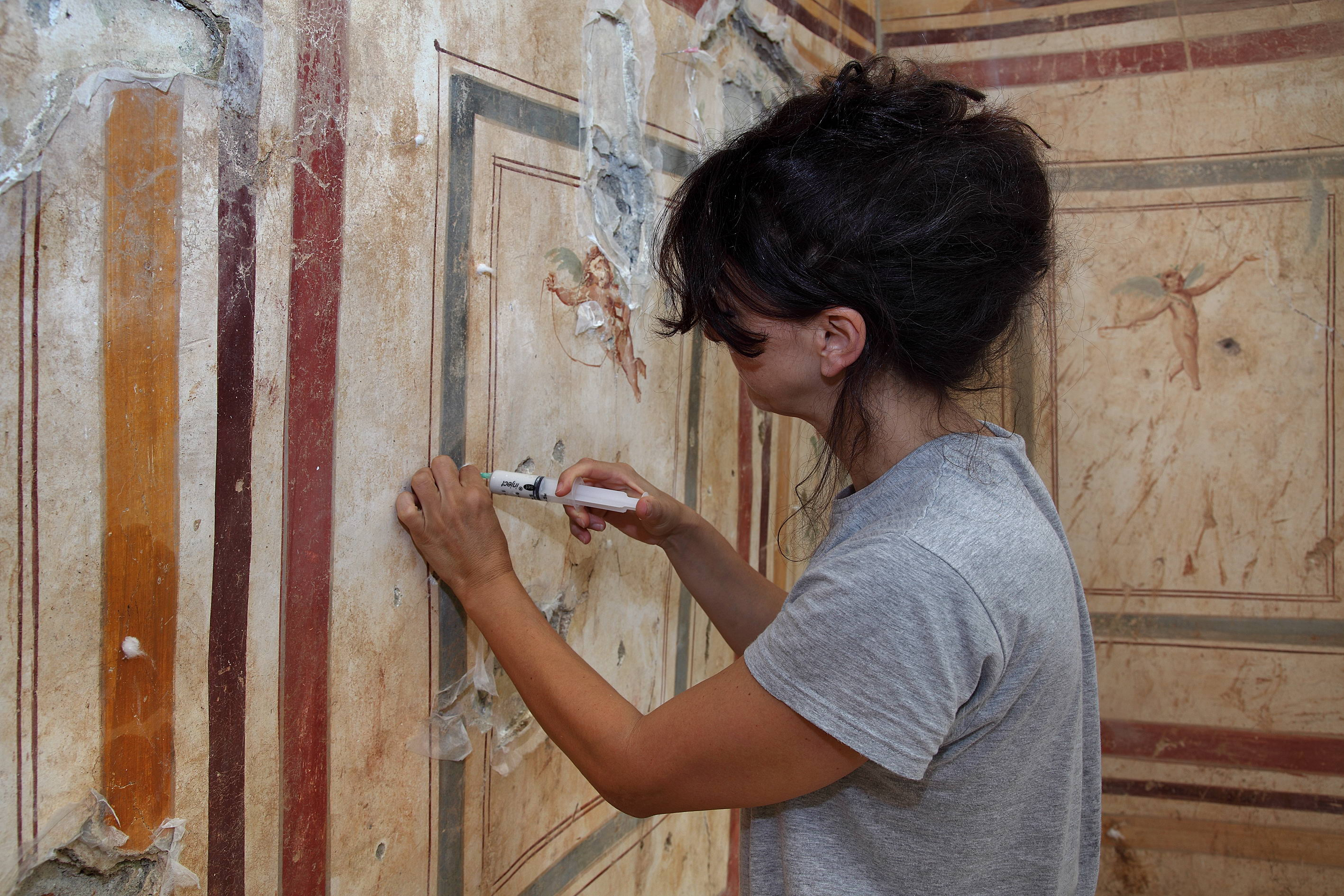 Restoration of Wall Paintings in Terrace House 2, Ephesus